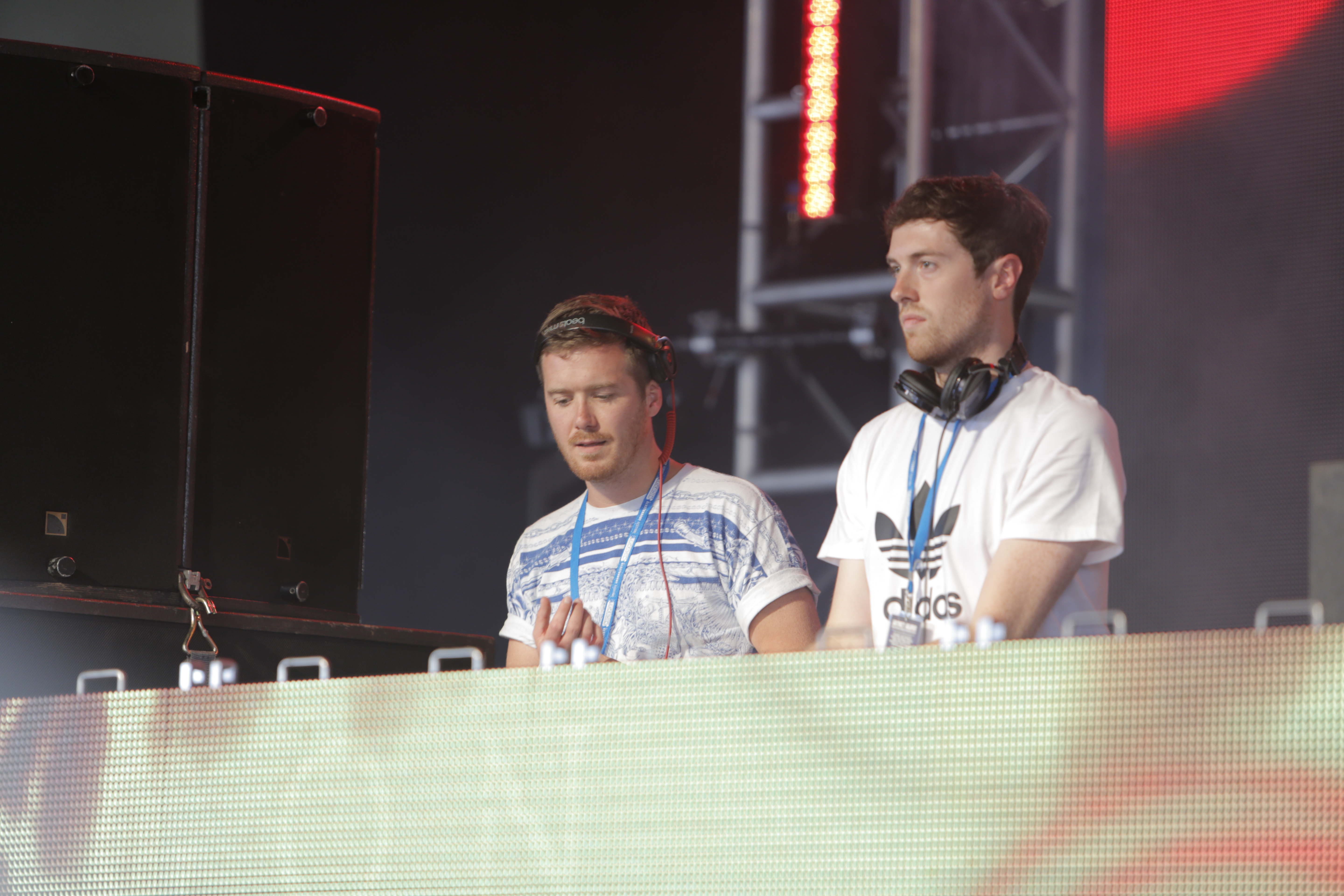 Gorgon City Glastonbury Festival 2014